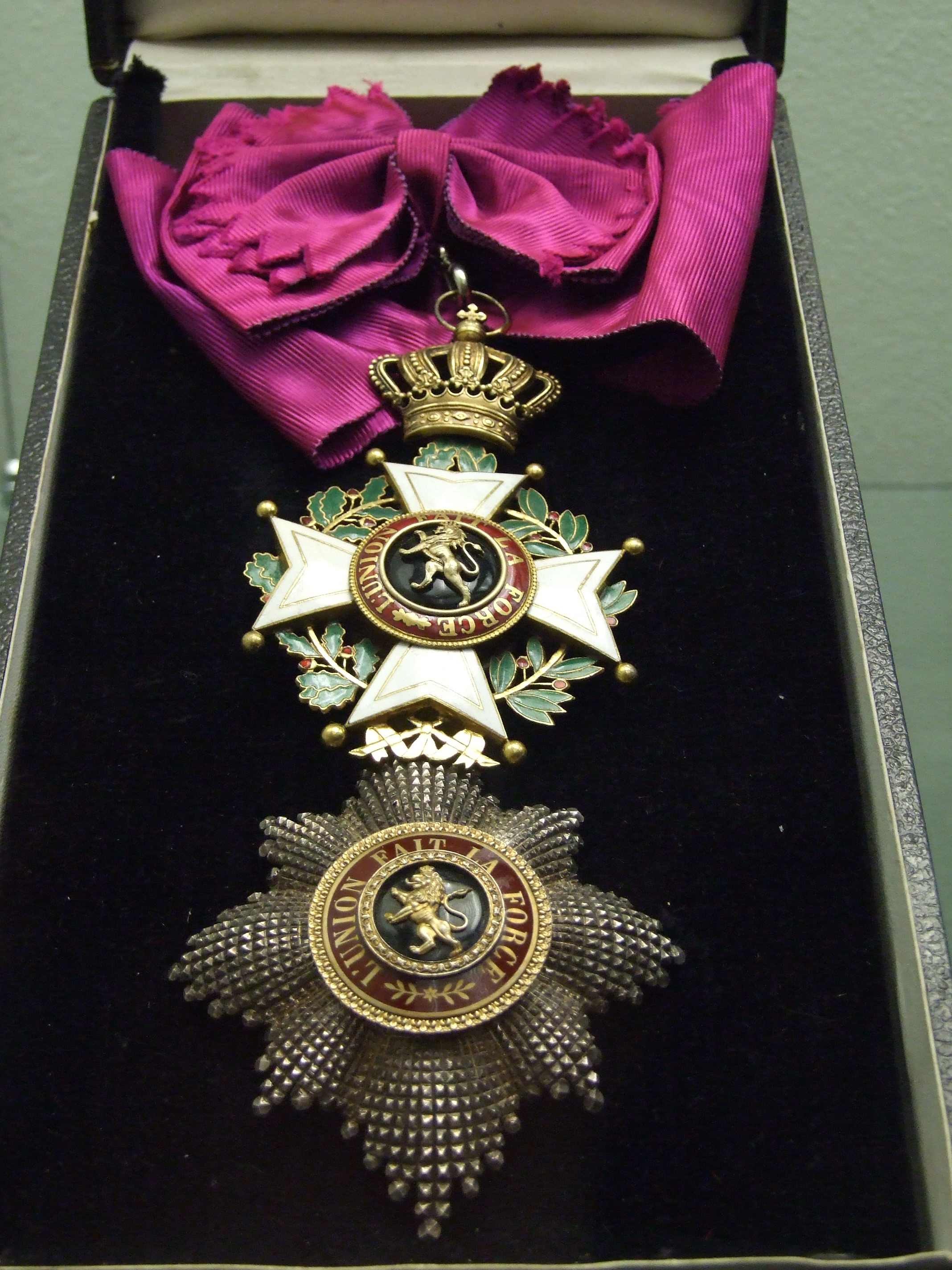 The Republic exhibition, National Museum in Prague